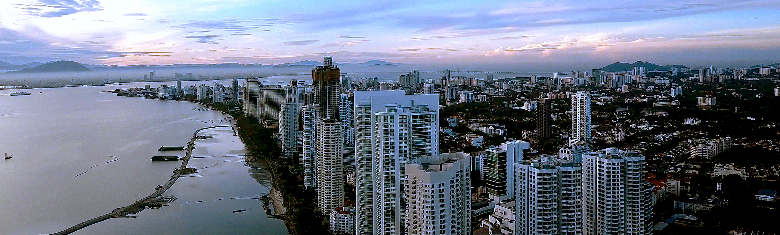 Panoramic view of the skyline of George Town in Penang, Malaysia